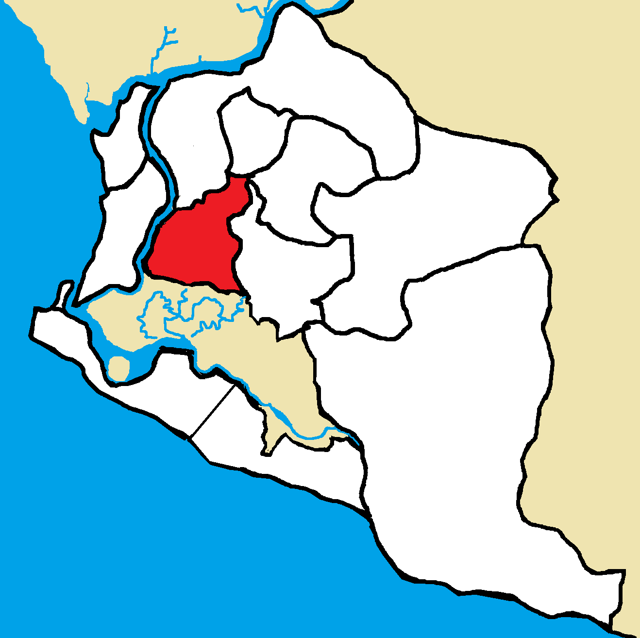 Map showing the city corporations, townships and borough of the Greater Monrovia District. Borders are approximate.